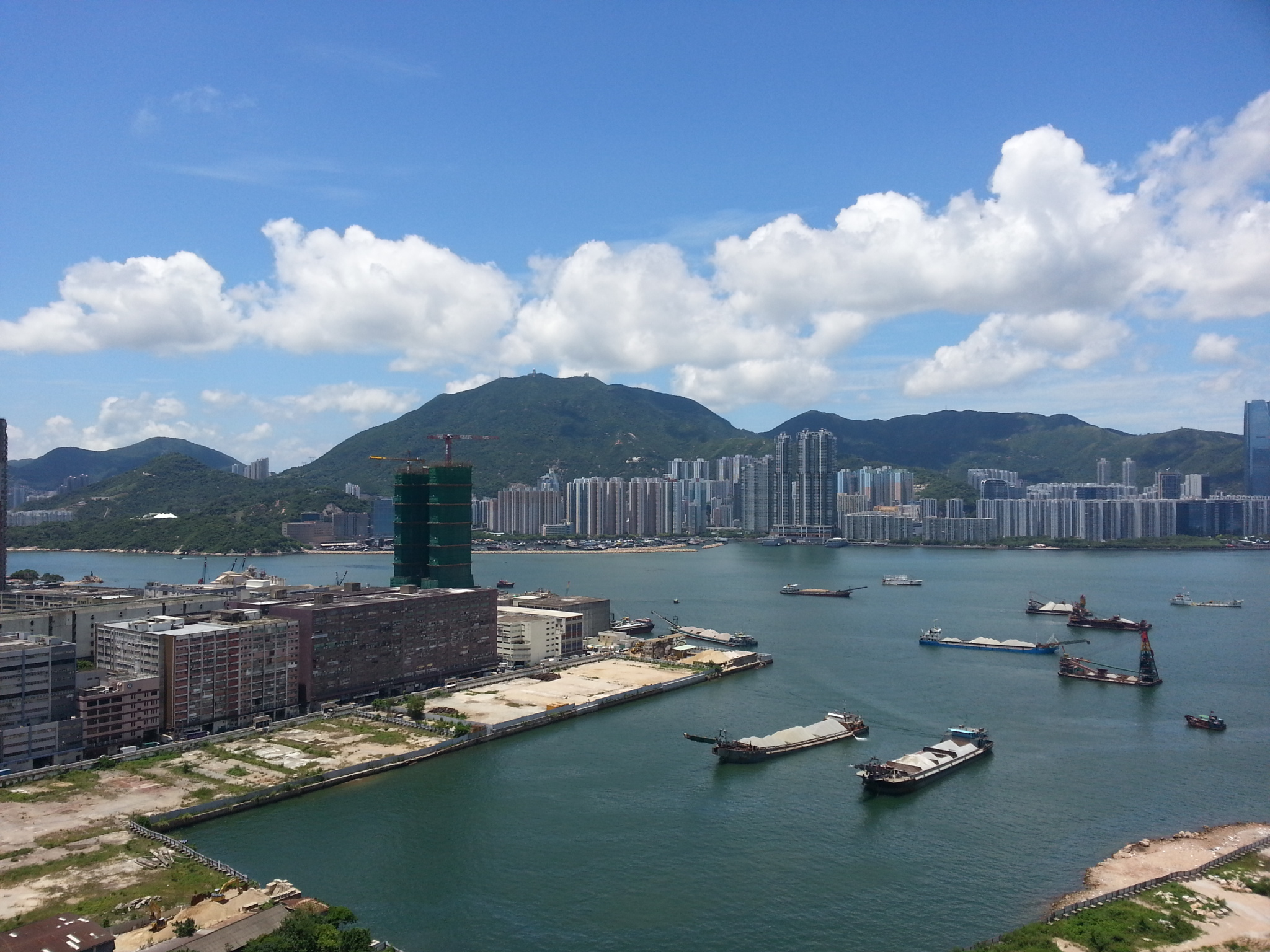 Yau Tong view 2015